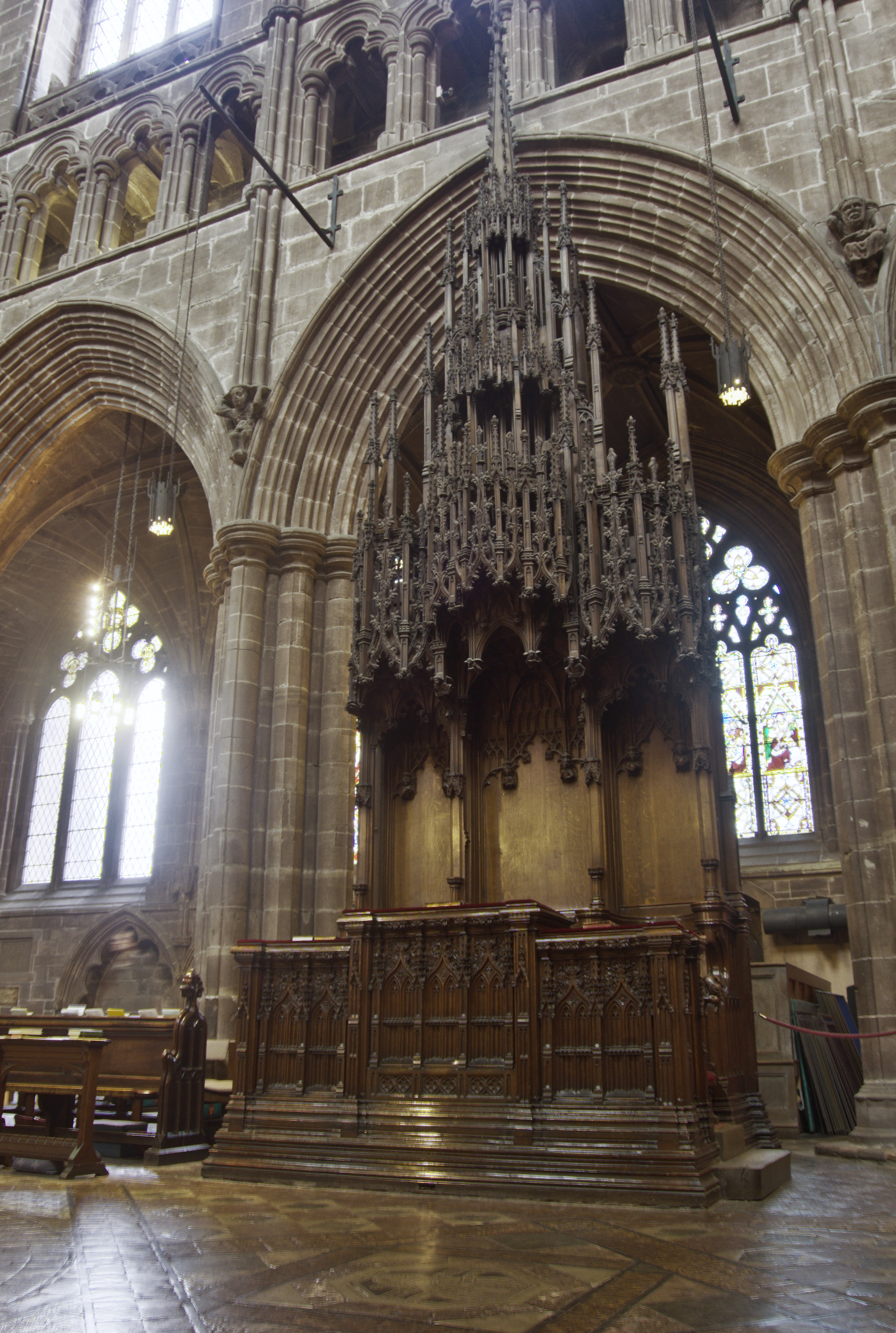 Cathedra of Chester Cathedral